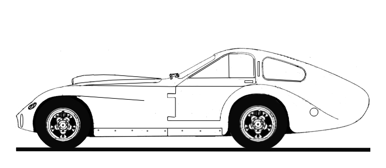 Bristol 450 racing car (Profile)